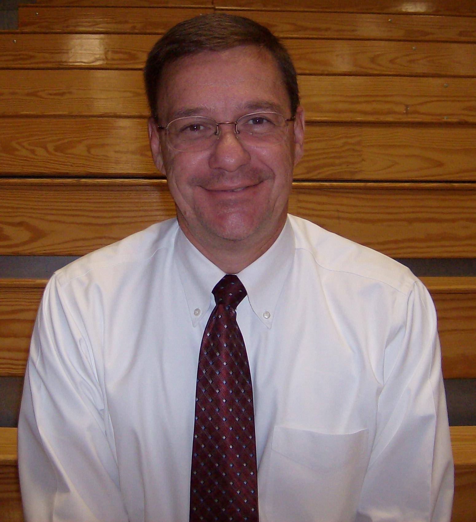 Photograph of Bob Lyon, past Kansas State Senator, at the Metheny Fieldhouse of Geneva College.